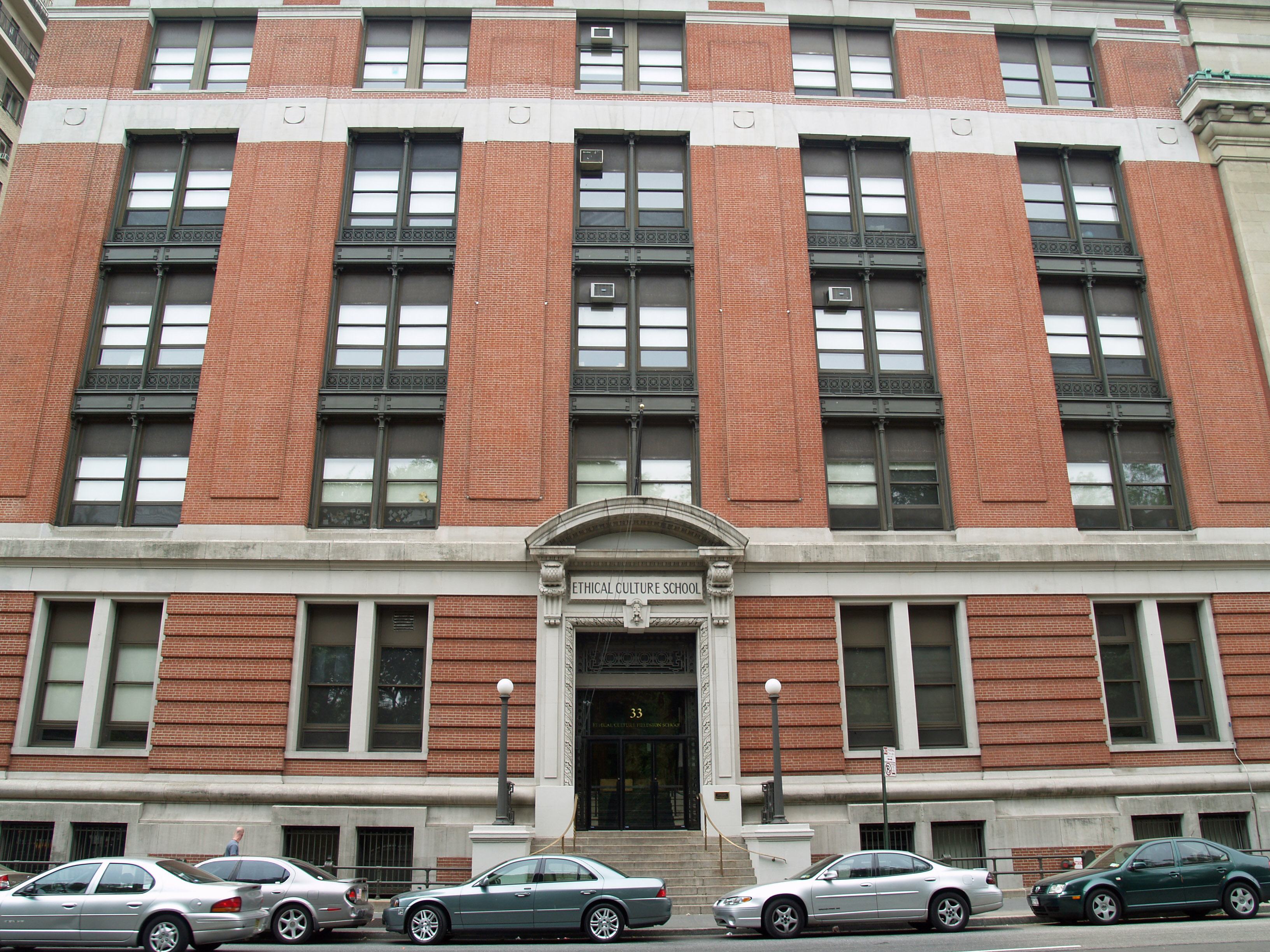 33 Central Park West (Ethical Culture School)